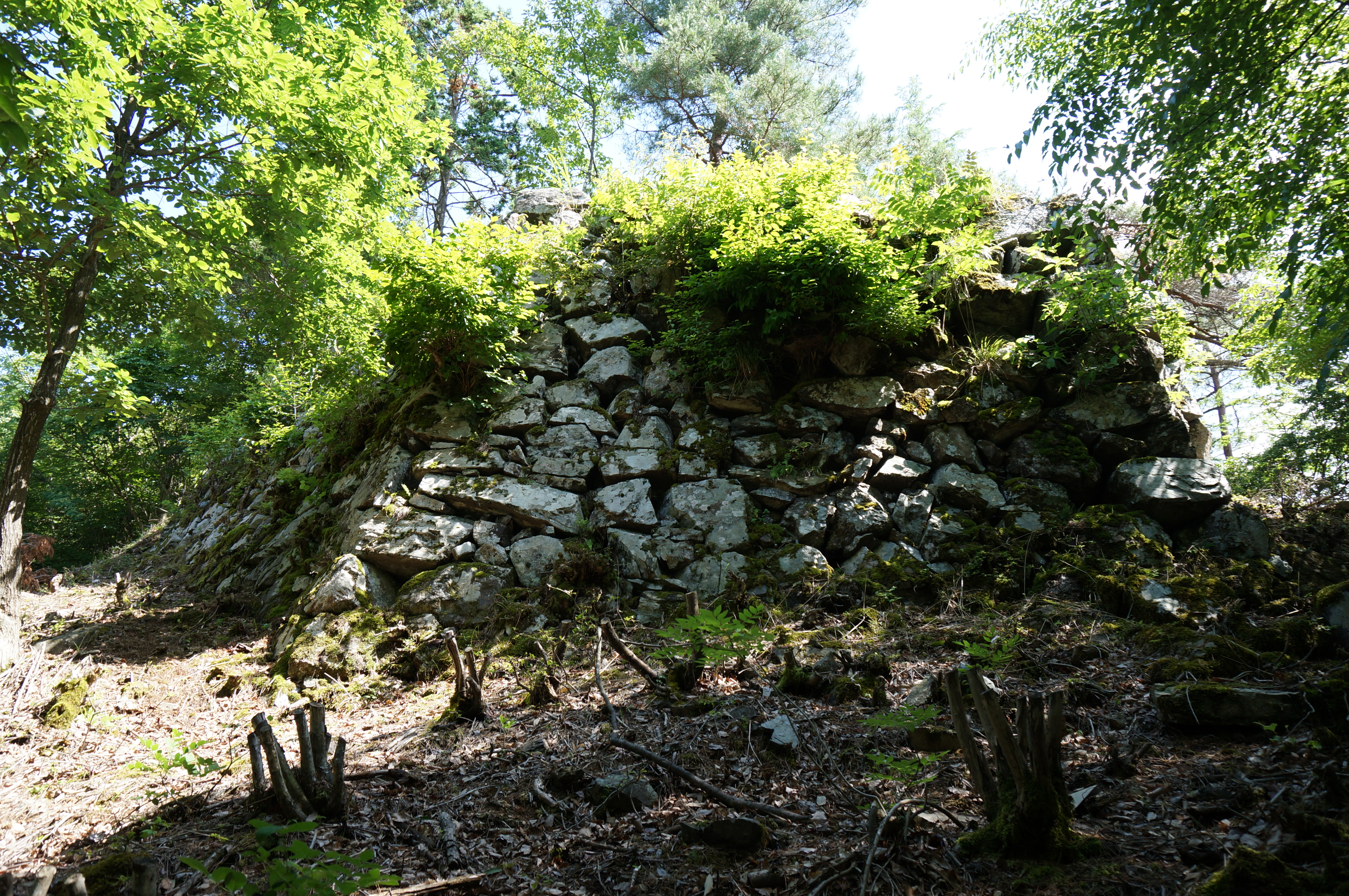 Hexagonal stone wall, Wakasa Oniga-jō